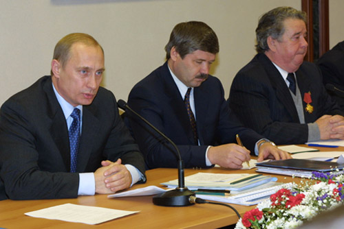 President Vladimir Putin with Yury Neyelov, Governor of the Yamal-Nenets Autonomous Region, in the centre, and Gazprom Board Chairman Rem Vyakhirev during a meeting on the development of the gas industry. Novy Urengoy, Yamalo-Nenets Autonomous Okrug (Russia).